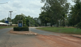 The entrance to Weipa in Cape York, Australia